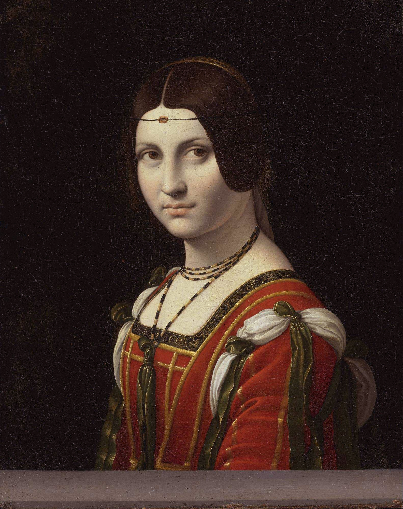 La Belle Ferronnière (from the property of the Hahn family) copy of a composition in the Louvre